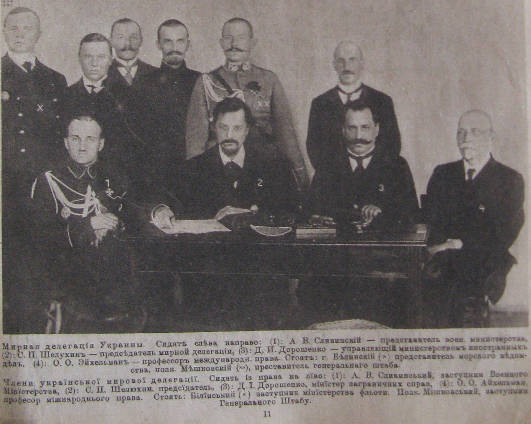 Ukrainian delegation for peace talks with Russian Soviet Republic, 1918. Seated, from left to right: Slivinskyi, Shelukhin, Doroshenko, Eichelmann. Stand: Bilinskyi (marked X), Mishkovskyi (marked XX)